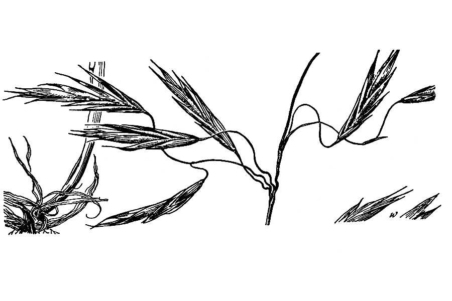 Bromus laevipes from Hitchcock, A.S. (rev. A. Chase). 1950. Manual of the grasses of the United States. USDA Miscellaneous Publication No. 200. Washington, DC.